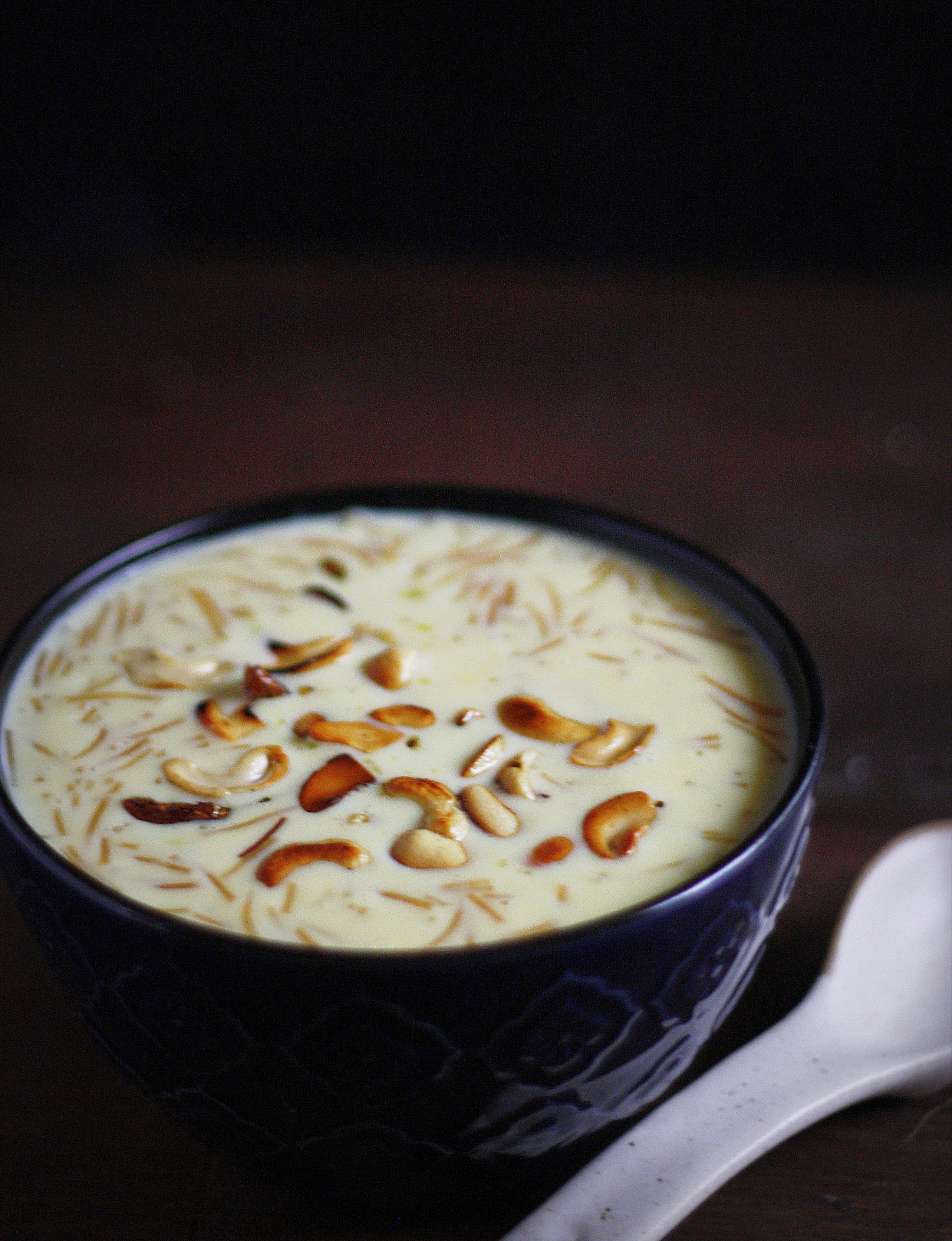 A rich and delicious bowl of sewai or vermicelli is all one needs to make a regular dinner special.